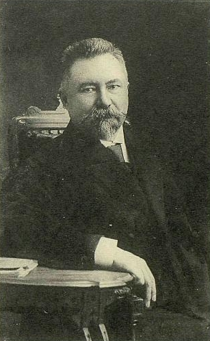 Mikhail Martynovich Alexeenko